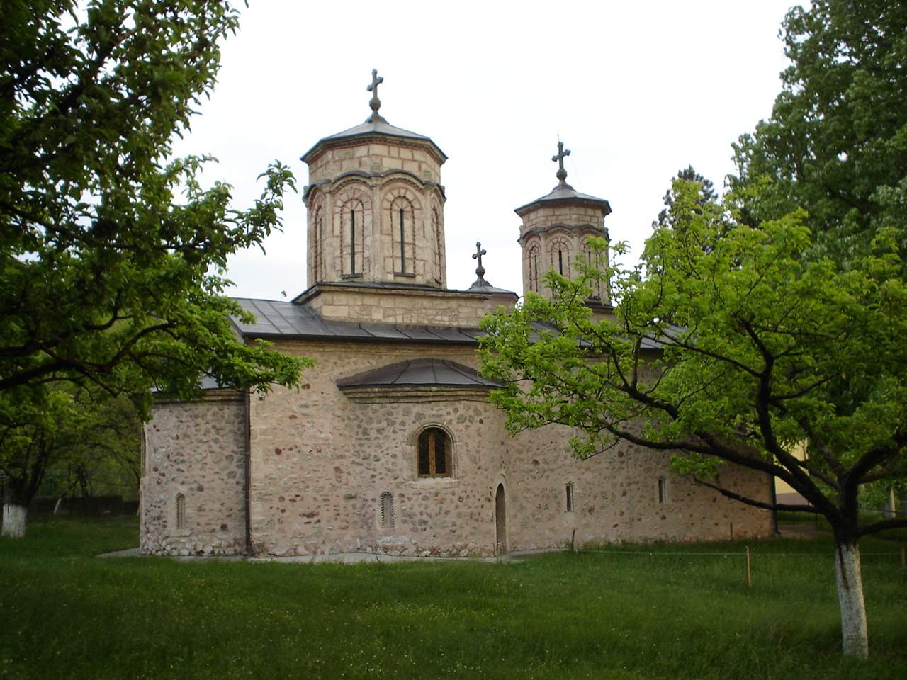 Monastery of saint Petka,from XIV century, in Izvor, near Paraćin, Serbia.